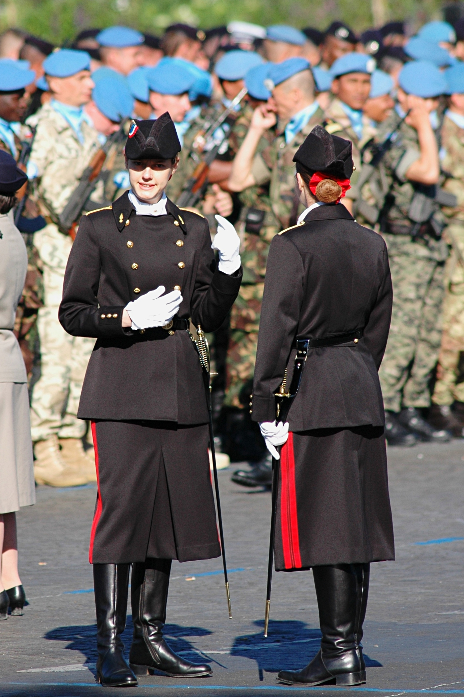 Two female cadets of École polytechnique in dress uniform before the Bastille Day 2008 military parade on the Champs-Élysées, Paris.